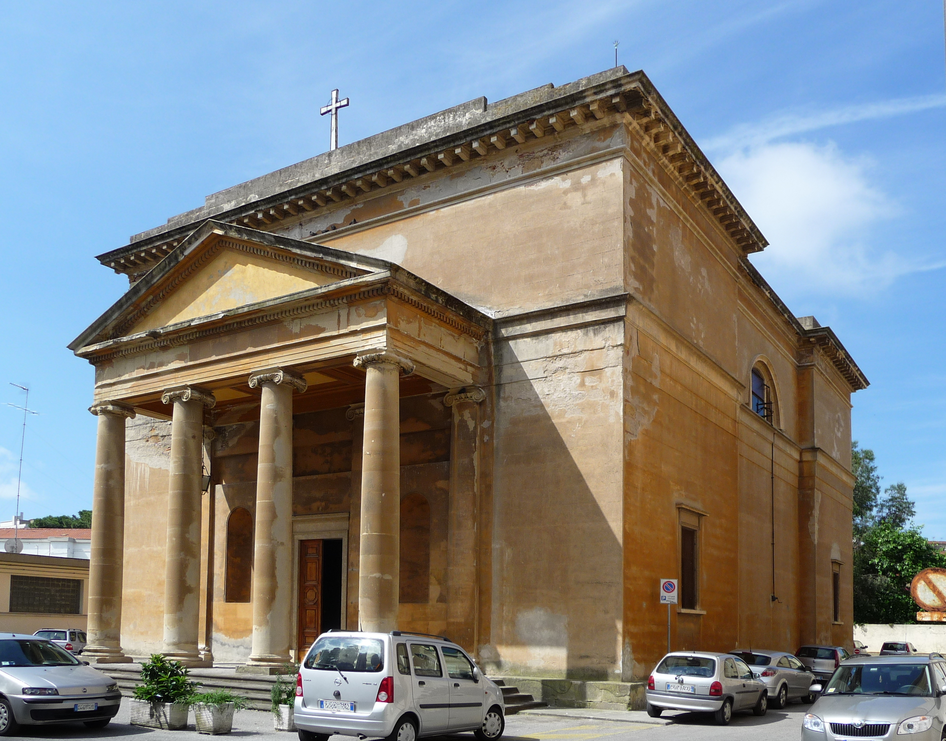 Church "San Giorgio", Livorno, Italy